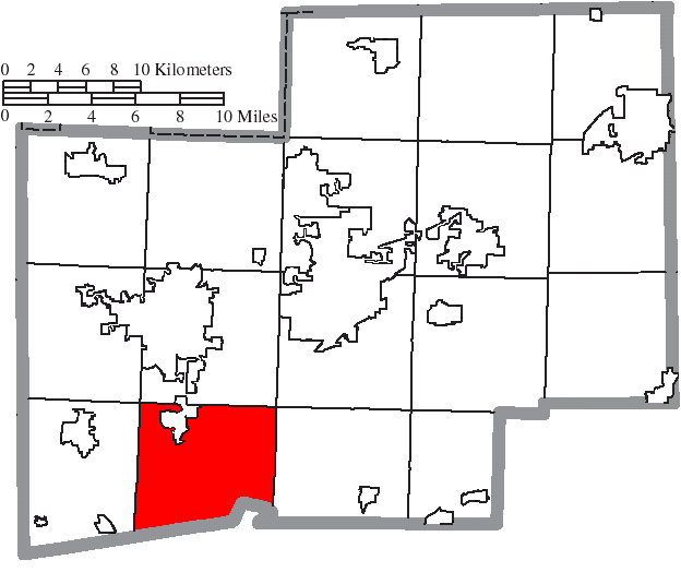 Map of the municipal and township boundaries of Stark County, Ohio, United States, as of the 2000 census, with the location of Bethlehem Township highlighted. Township borders are shown only in unincorporated areas in order to differentiate incorporated and unincorporated areas more clearly.